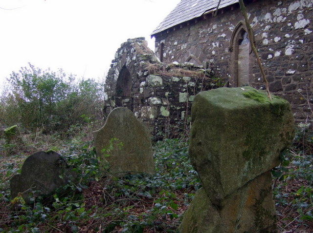 Ruined porch at Morfil/Morvil church The porch roof has collapsed although the rest of the church still seems to be in reasonable condition. The churchyard and its graves are very neglected. The stone in the foreground (not a gravestone) has an unusual shape but no sign of carving.